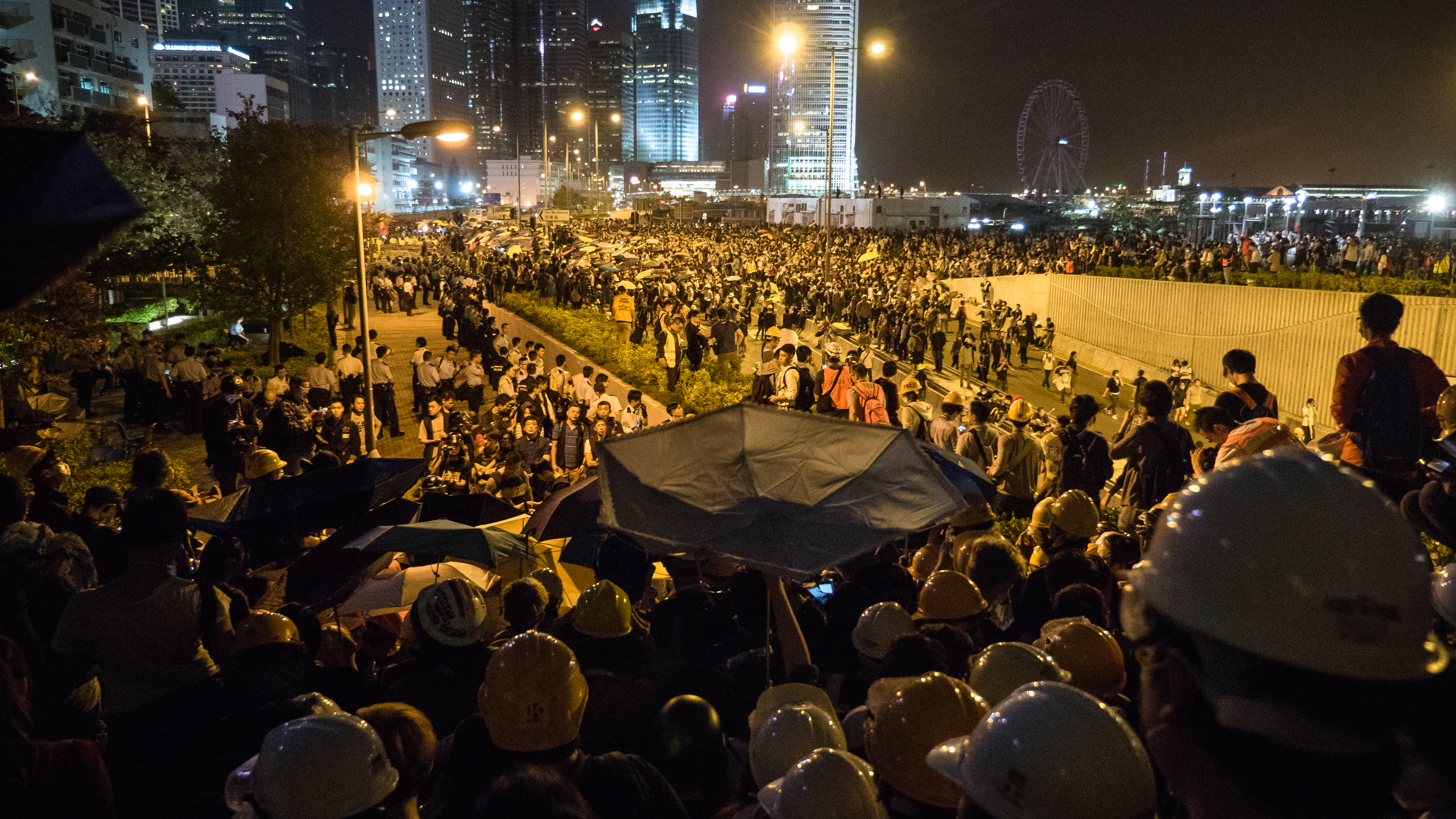 Occupy Lung Wo Road By Katie Brinn